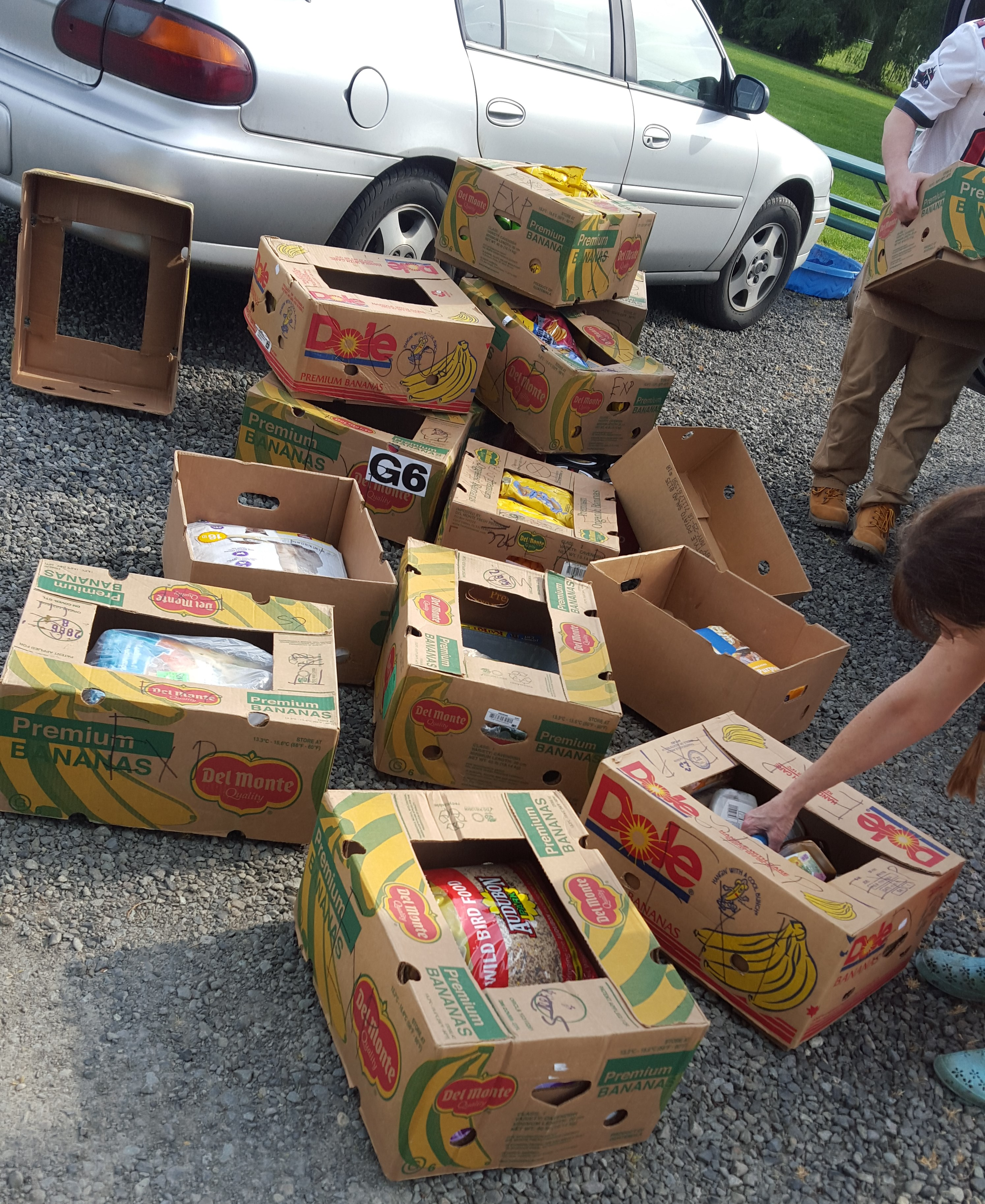 All of this food was scheduled to go into the trash. I took it and distributed what was still good to humans who needed it and the rest went to a farmer's chickens and pigs.